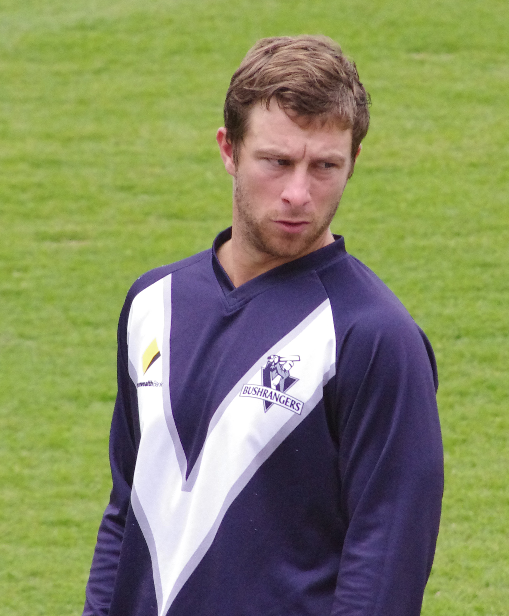 Matthew Wade, Australian cricketer